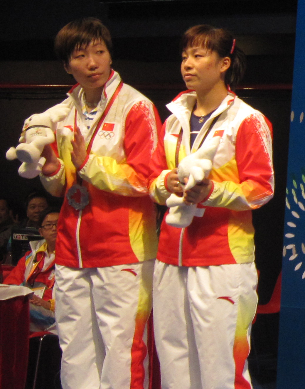 Wang Xiaoli and Ma Jin @ Hong Kong East Asian Games